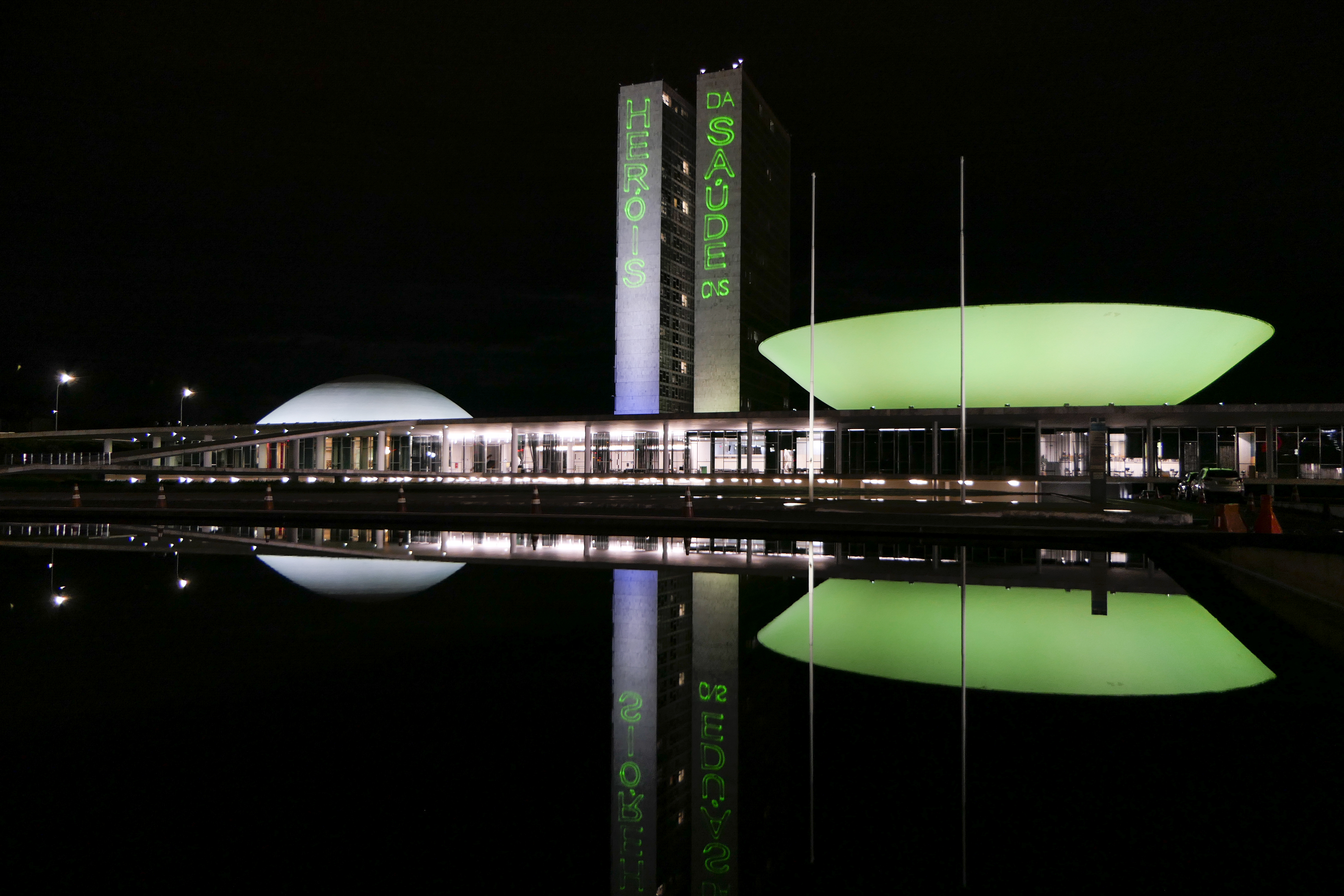 O Congresso Nacional homenageia, com uma iluminação especial, os profissionais da saúde que estão no front de combate contra a pandemia do coronavírus (Covid-19). Foto: Roque de Sá/Agência Senado